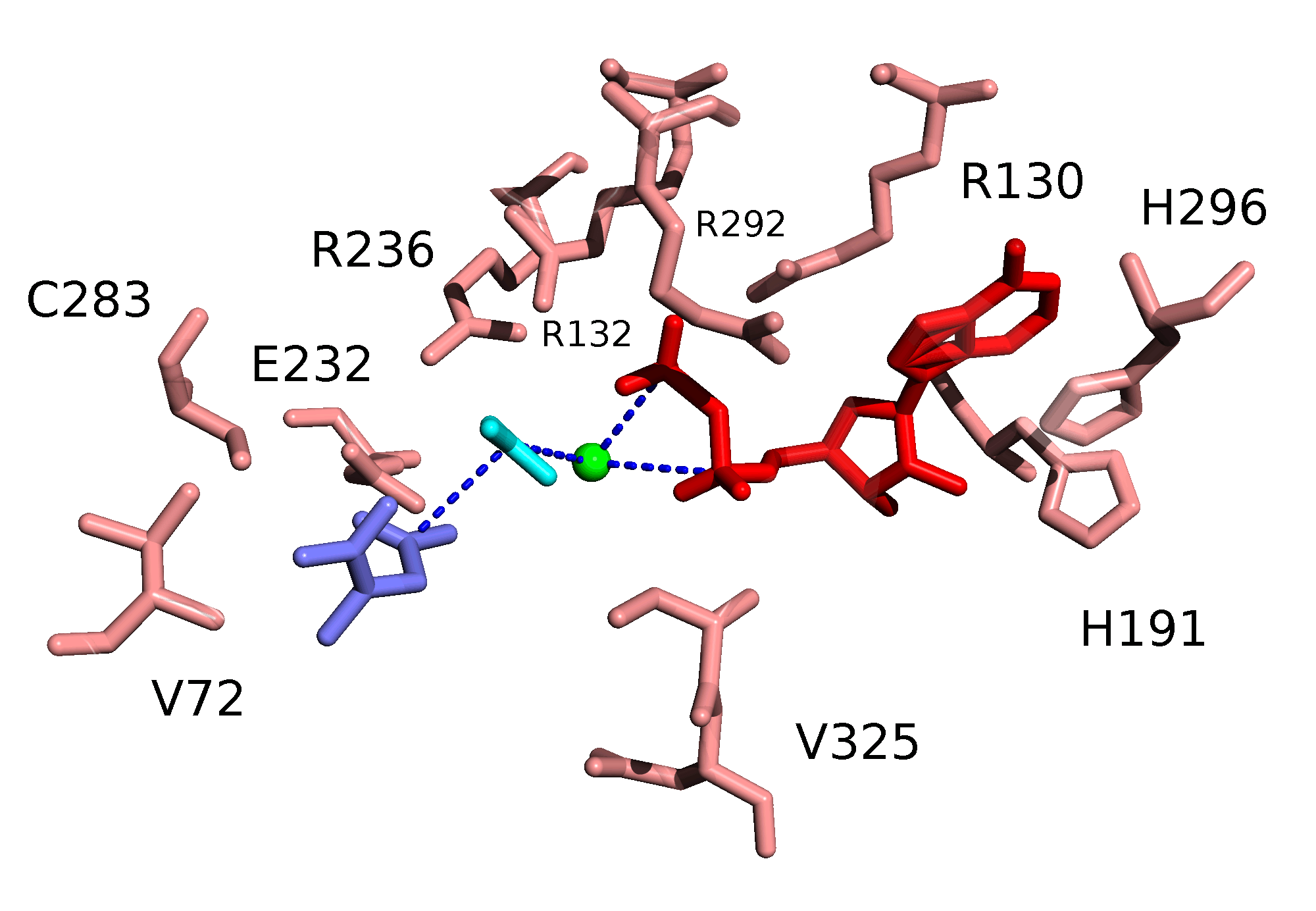 cut-out of human creatine kinase (brain-type), chain B. Das aktive Zentrum beinhaltet the transition-state analog complex (TSAC) comprising of a magensium ion (green), one molecule ADP (red), one nitrate ion (darkred, the phosphate analoge) und creatine (blue). Data taken from pdb-file 3b6r.